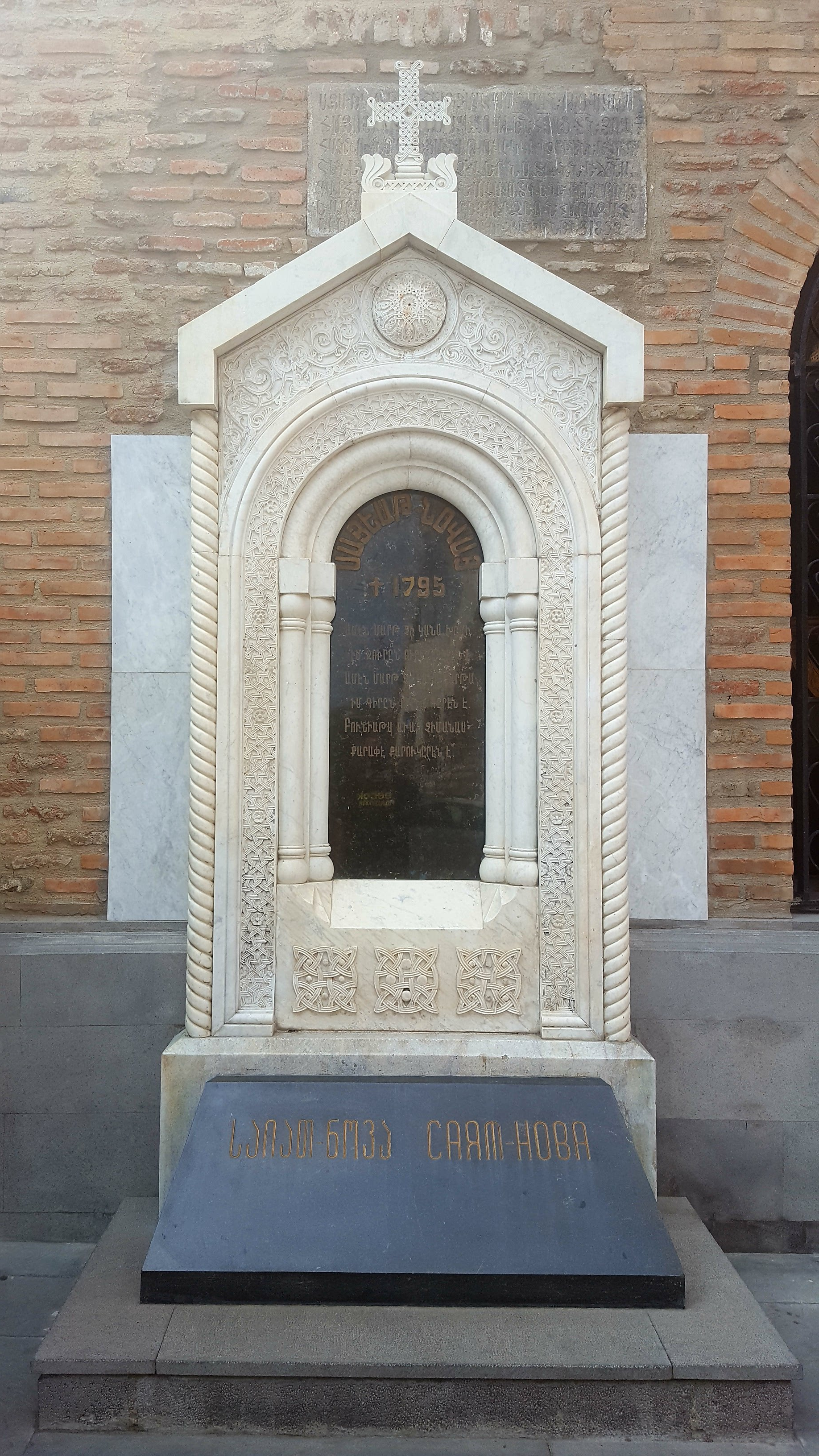 Sayat Nova memorial on the wall of St George Armenian Church, Tbilisi, Georgia